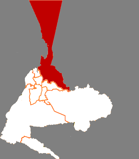 Location of Midong District in Urumqi City, China